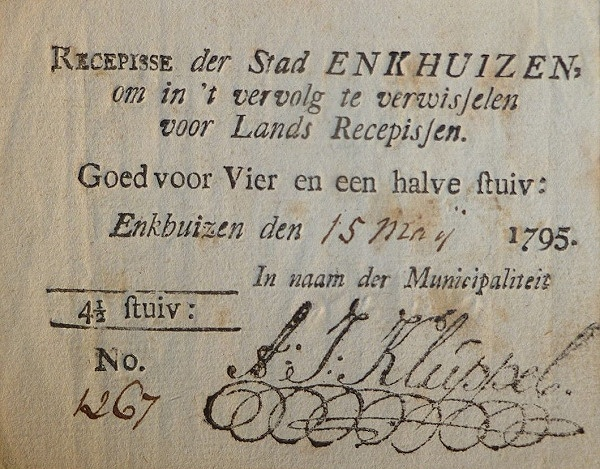 A local banknote of "recepis" issued during the Batavian Republic.